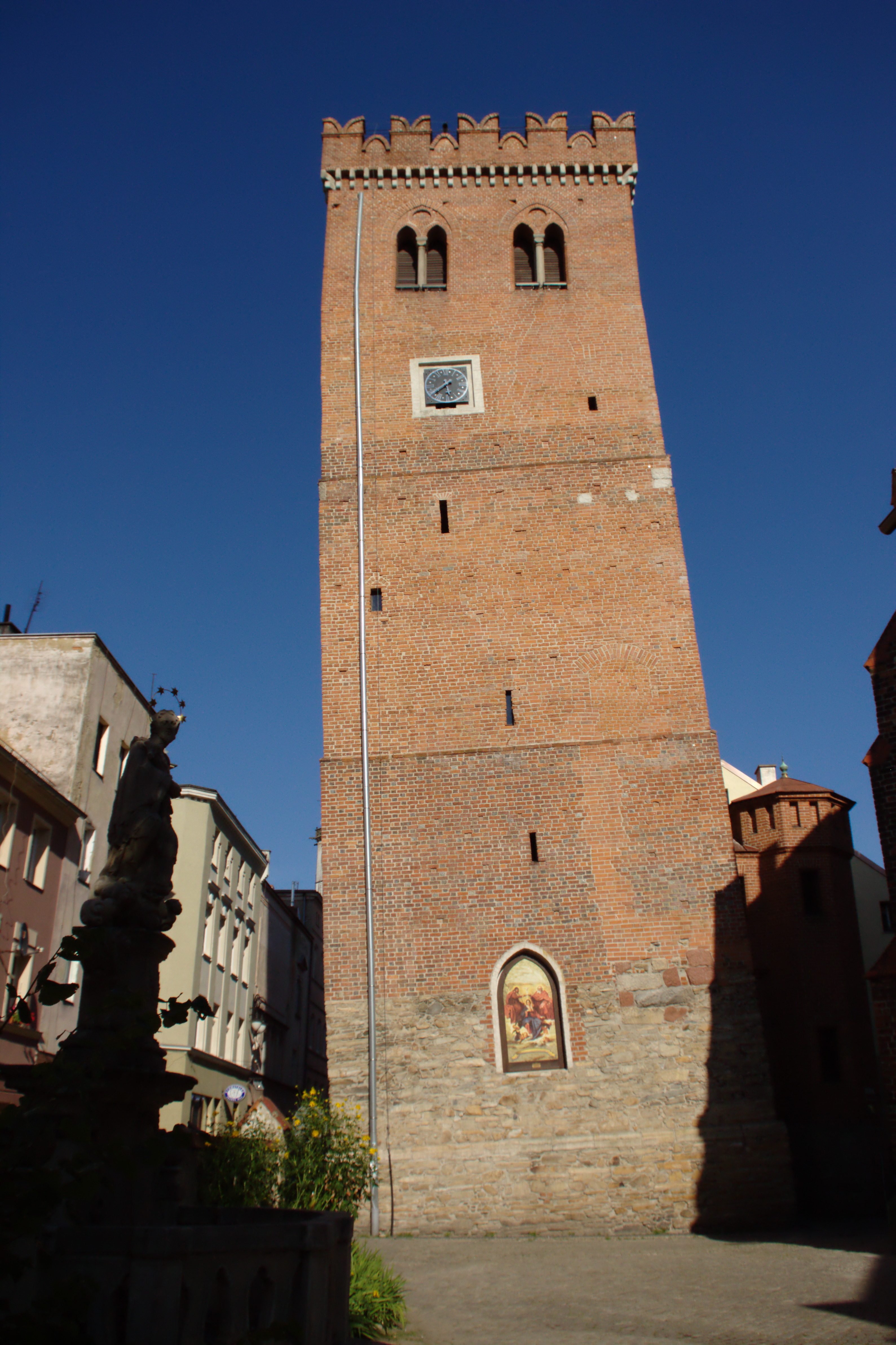 Leaning tower in Ząbkowice Śląskie, Poland